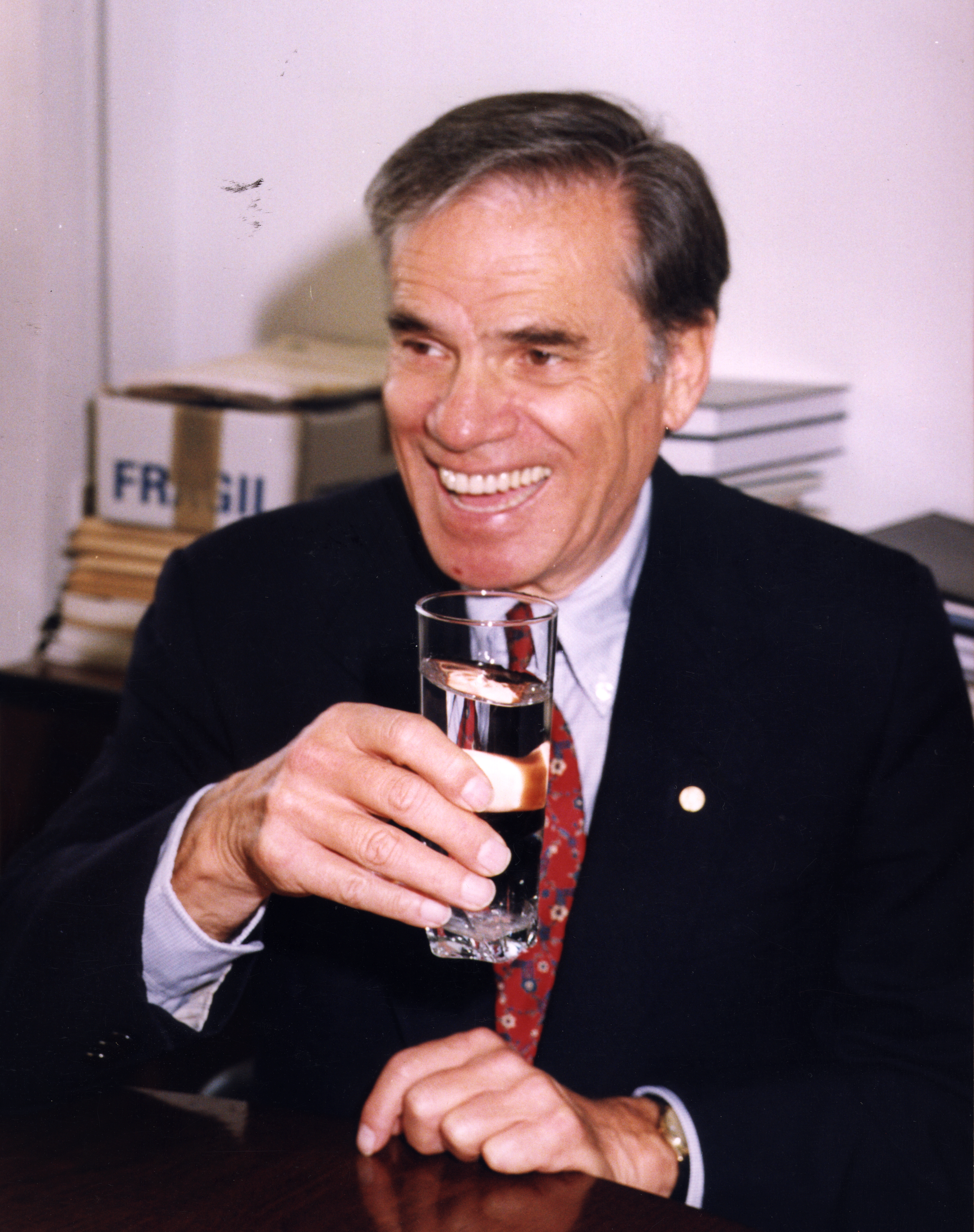 Nobel laureate Martin Rodbell lectures in the University of Seville, Spain, 14 November 1995.